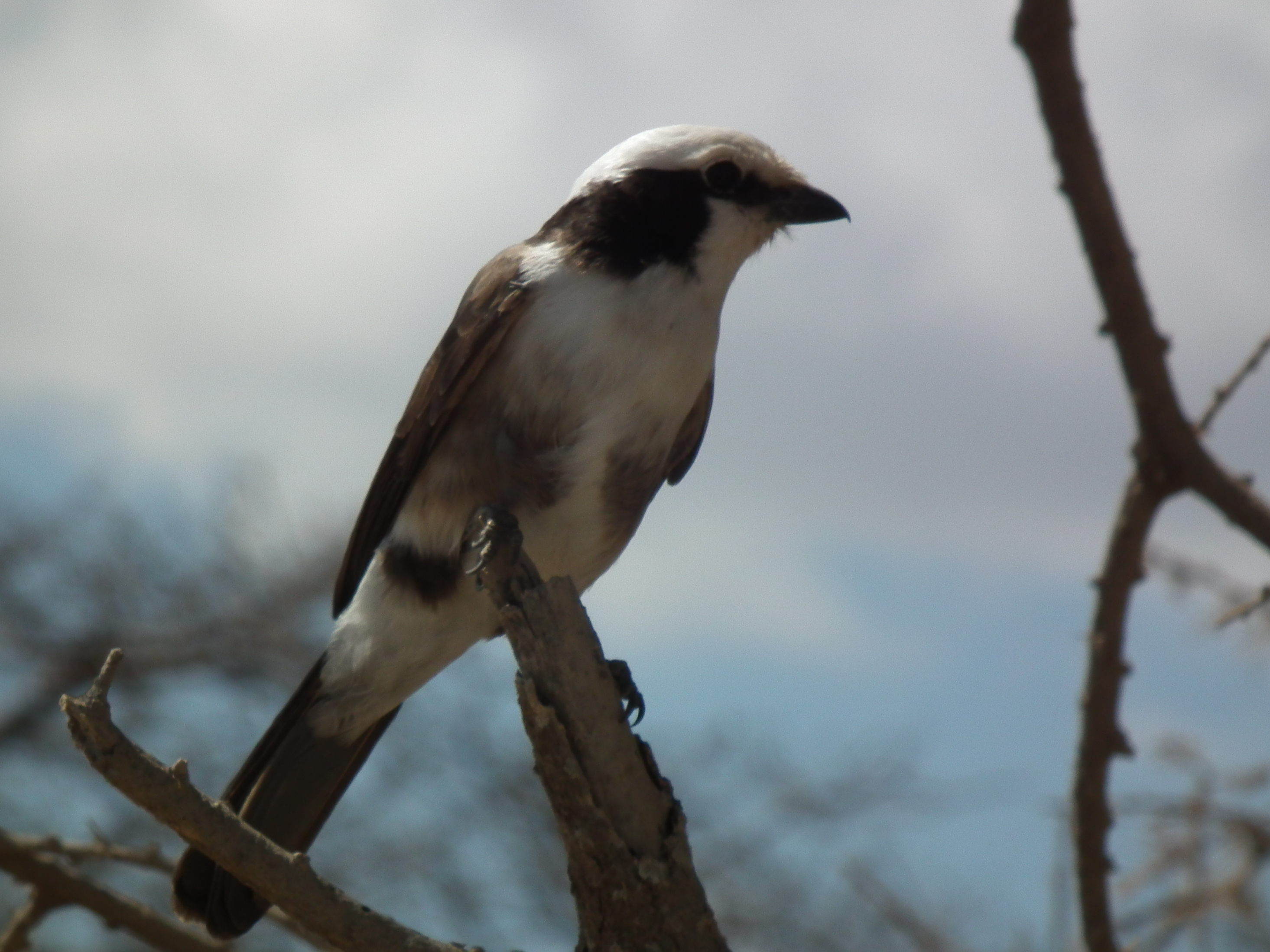 Northern White-crowned Shrike (Eurocephalus rueppelli), picture taken at, Tanzania